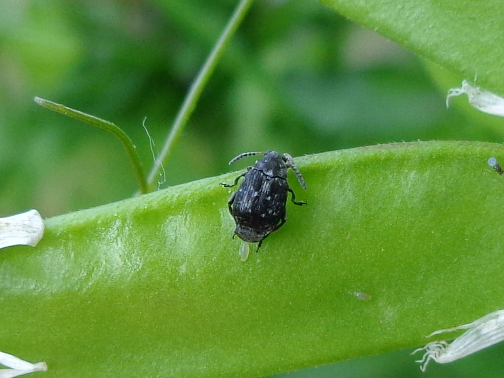 Bruchus atomarius laing eggs on Vicia sp. Found in Bērzi village near Bauska city, Latvia.